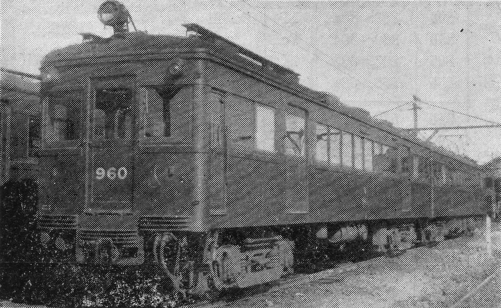 Hankyu Railway #960 Built in 1937